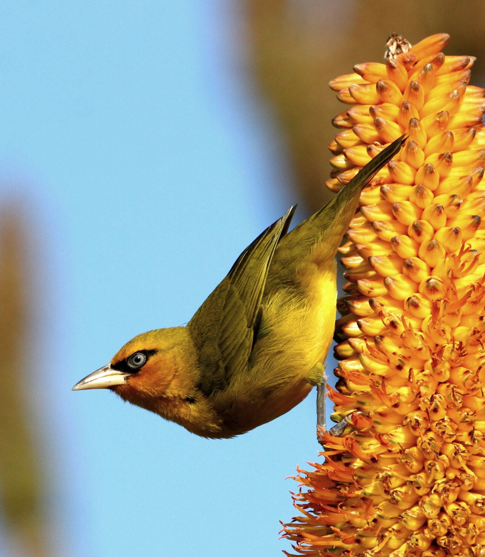 Female spectacled weaver Ploceus ocularis at uMhlanga, KwaZulu-Natal.